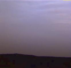 Courtesy: NASA/JPL The usually pinkish-red color of Mars's sky turns a violet color on occasion, due to the presence of water ice clouds with very small ice particles. Image from Mars Pathfinder These clouds from Sol 15 have a new look. As water ice clouds cover the sky, the sky takes on a more bluish cast. This is because small particles (perhaps a tenth the size of the martian dust, or one-thousandth the thickness of a human hair) are bright in blue light, but almost invisible in red light. Thus, scientists expect that the ice particles in the clouds are very small. The clouds were imaged by the Imager for Mars Pathfinder (IMP). Mars Pathfinder is the second in NASA's Discovery program of low-cost spacecraft with highly focused science goals. The Jet Propulsion Laboratory, Pasadena, CA, developed and manages the Mars Pathfinder mission for NASA's Office of Space Science, Washington, D.C. JPL is a division of the California Institute of Technology (Caltech). The Imager for Mars Pathfinder (IMP) was developed by the University of Arizona Lunar and Planetary Laboratory under contract to JPL. Peter Smith is the Principal Investigator.